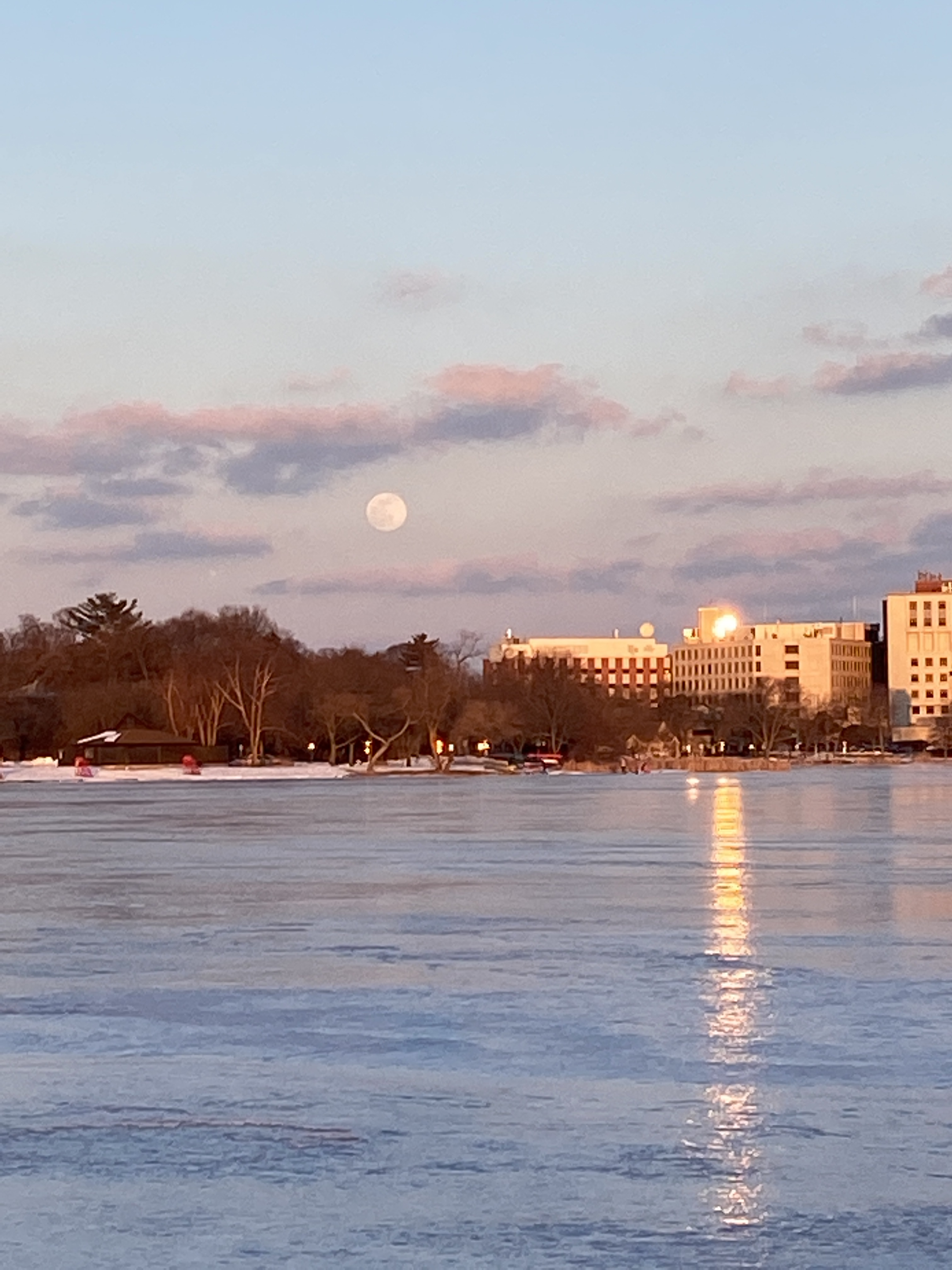 A view of St. Mary's Hospital from frozen Lake Wingra as the sun is setting.